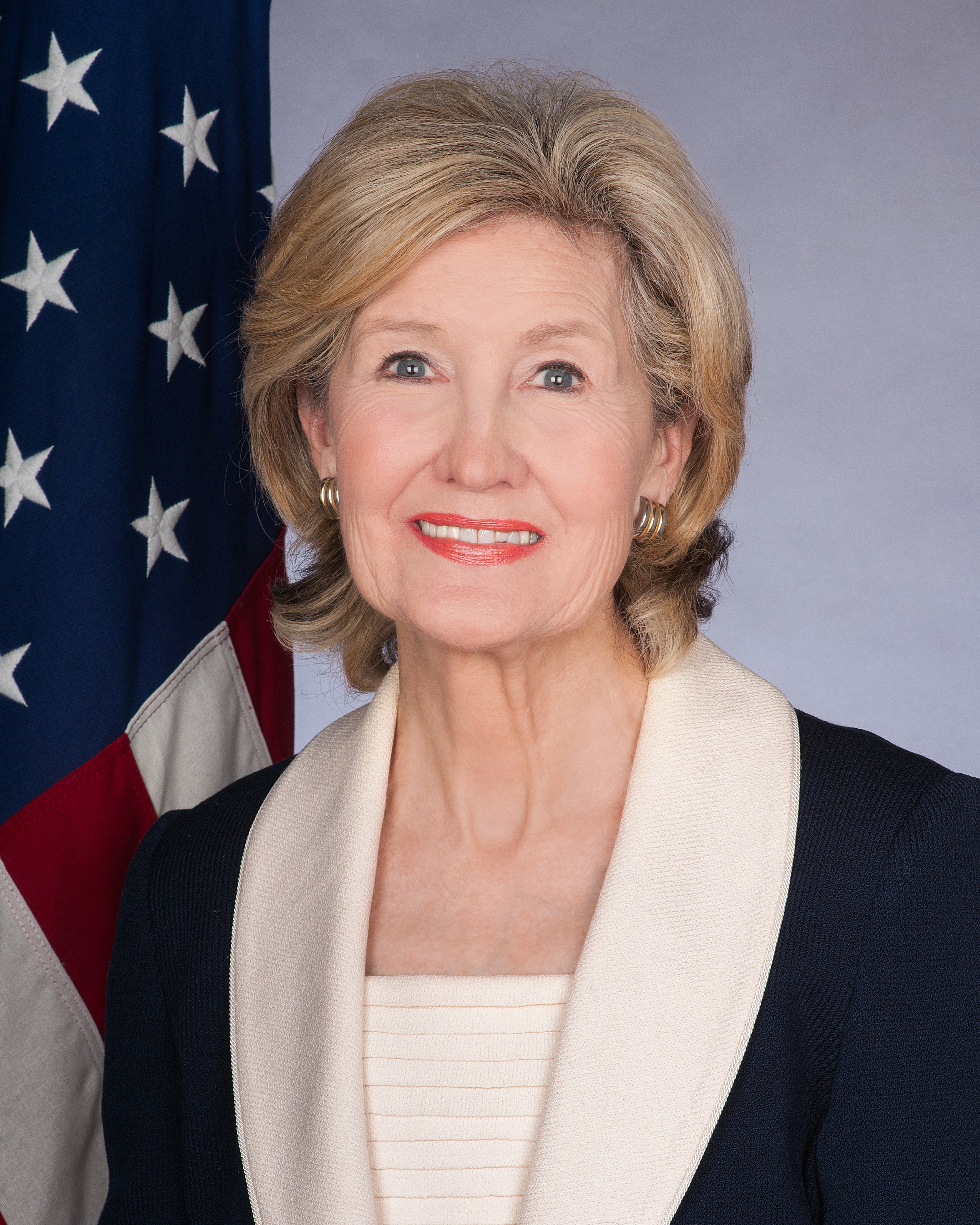 Kay Bailey Hutchison official Ambassador of NATO photo